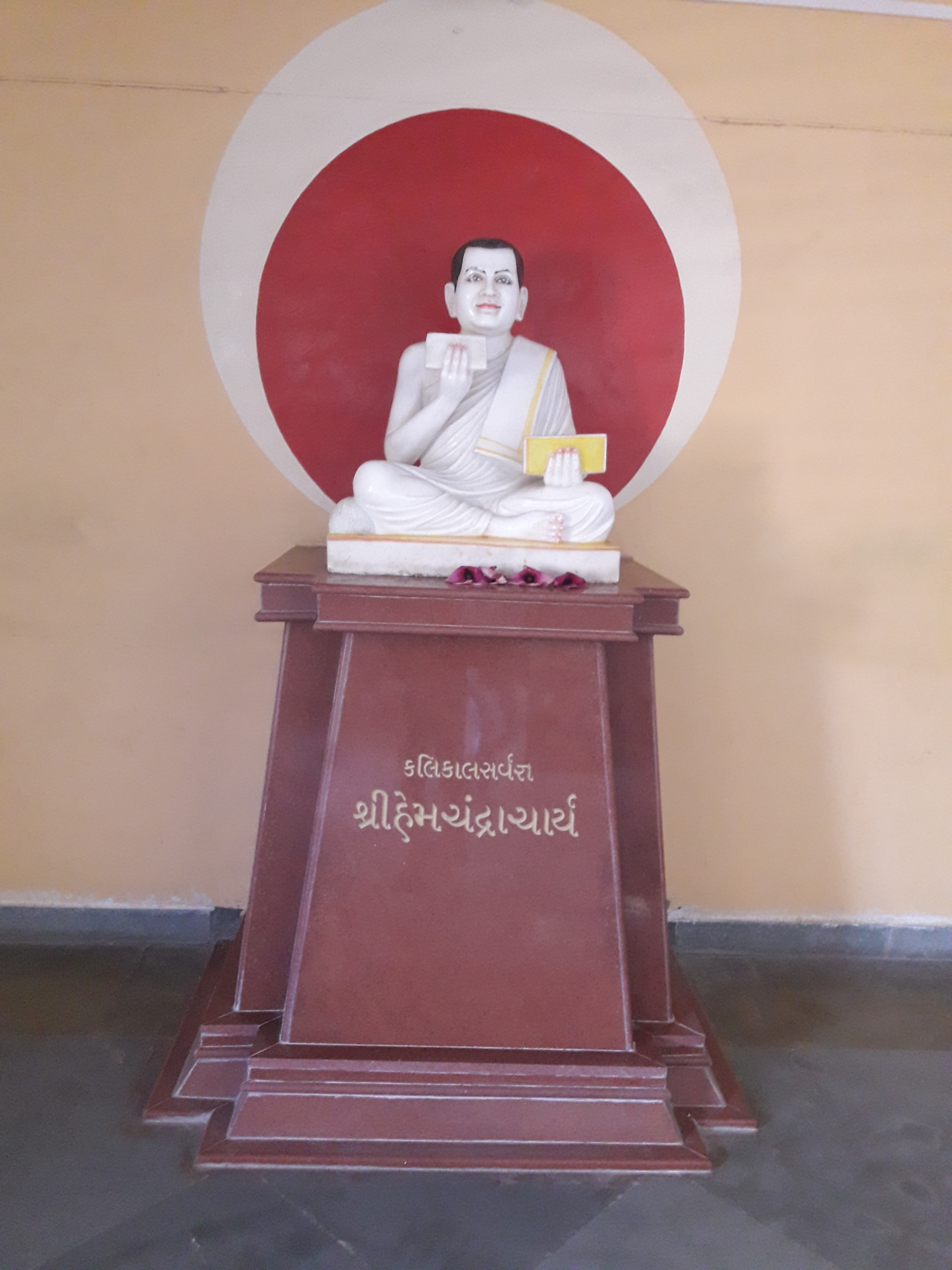 Bust of Acharya Hemachandra, generally known as Hemachandracharya, at Hemchandracharya North Gujarat University, Patan, Gujarat.